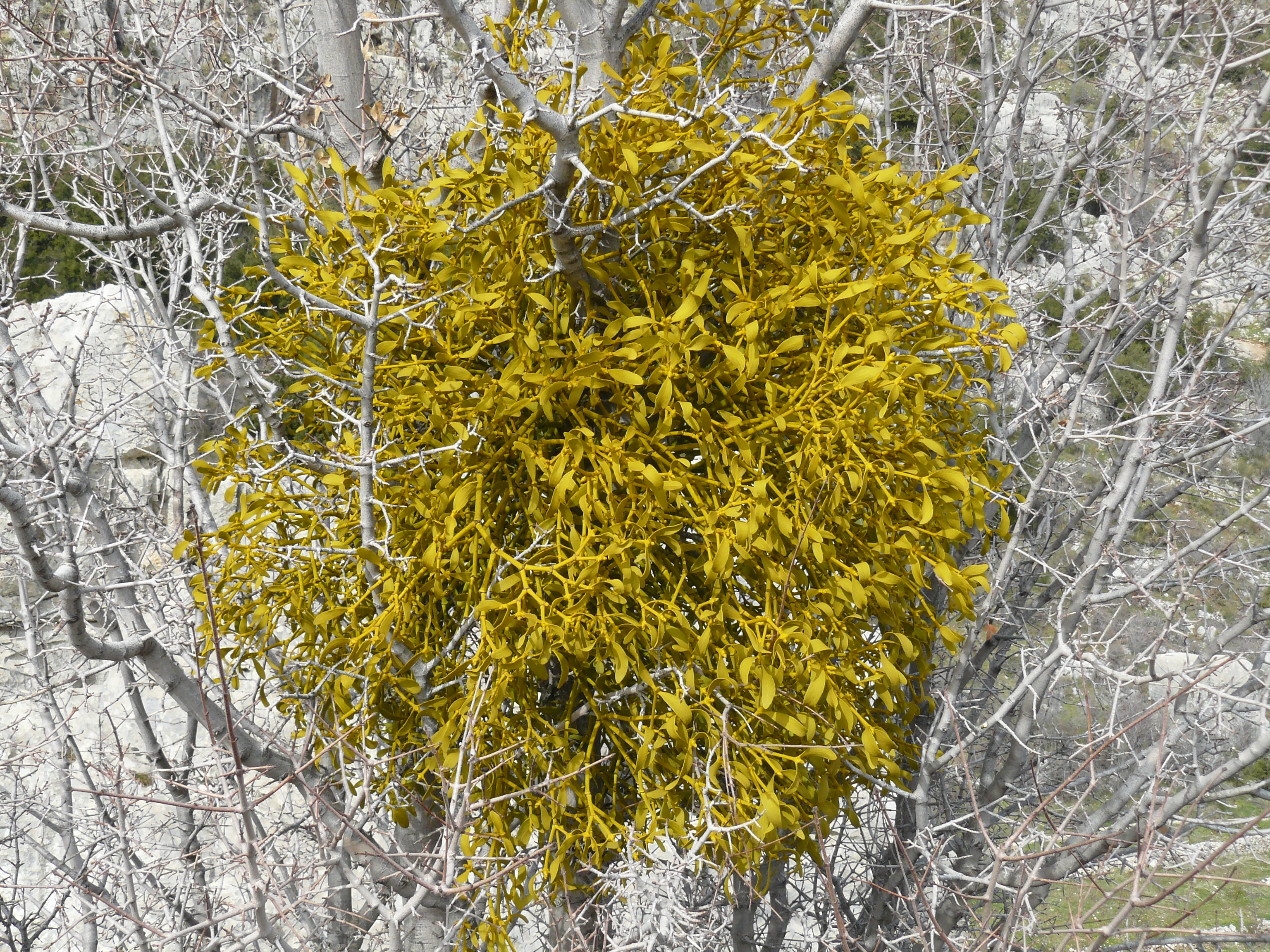 Mistletoe in a Lebanese Oak tree